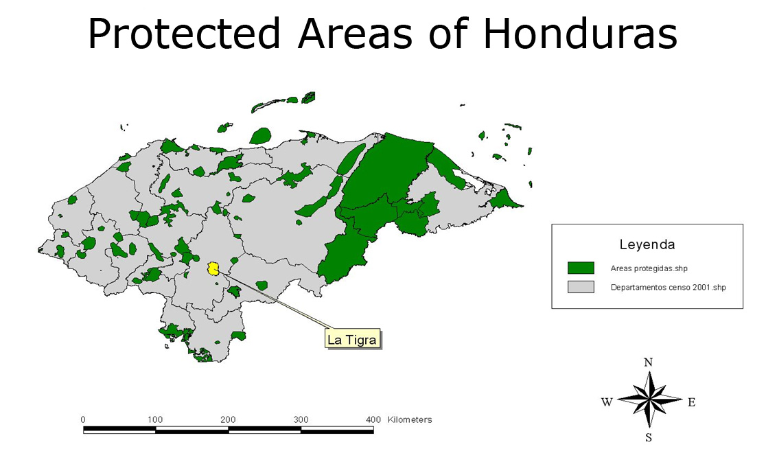 Map of Protected Areas of Honduras